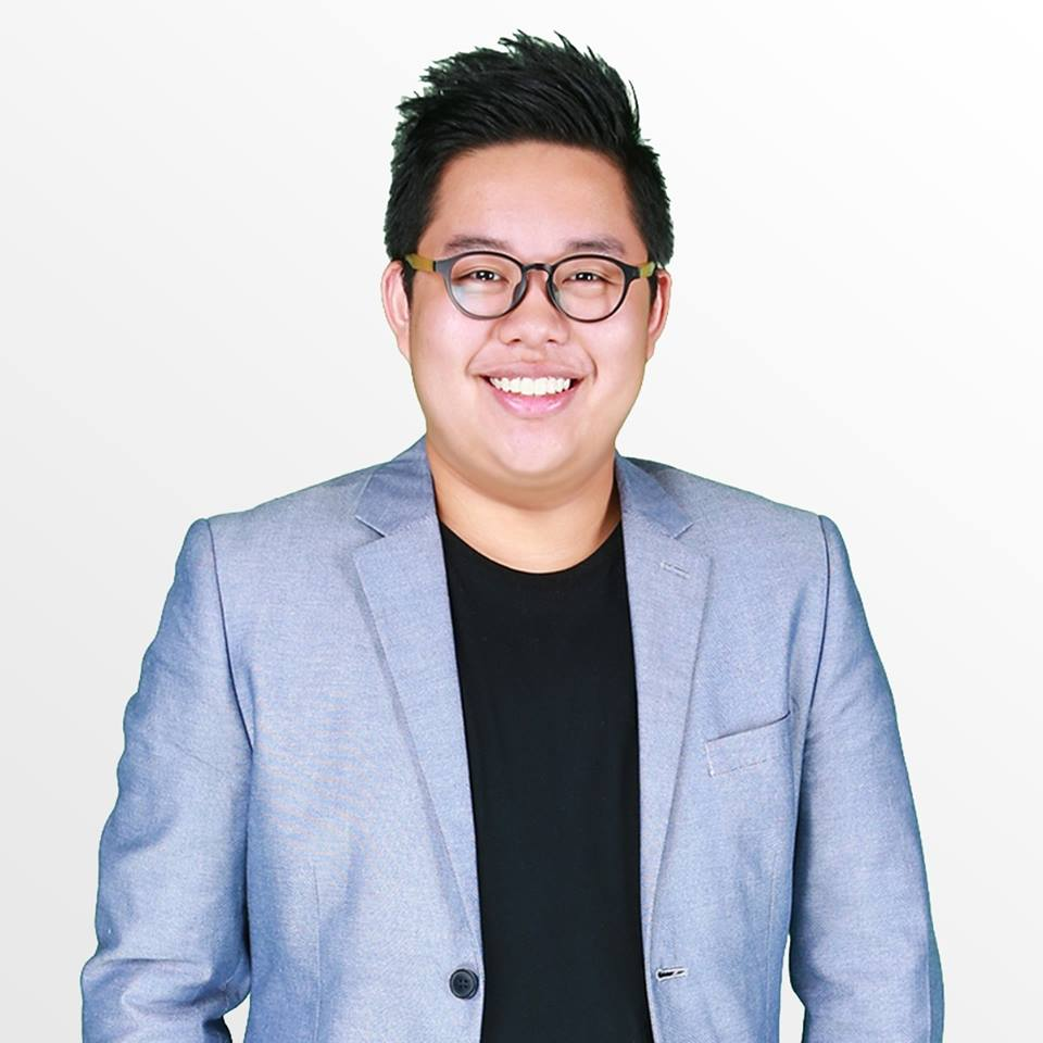 Yu Ka Wan Kelvin